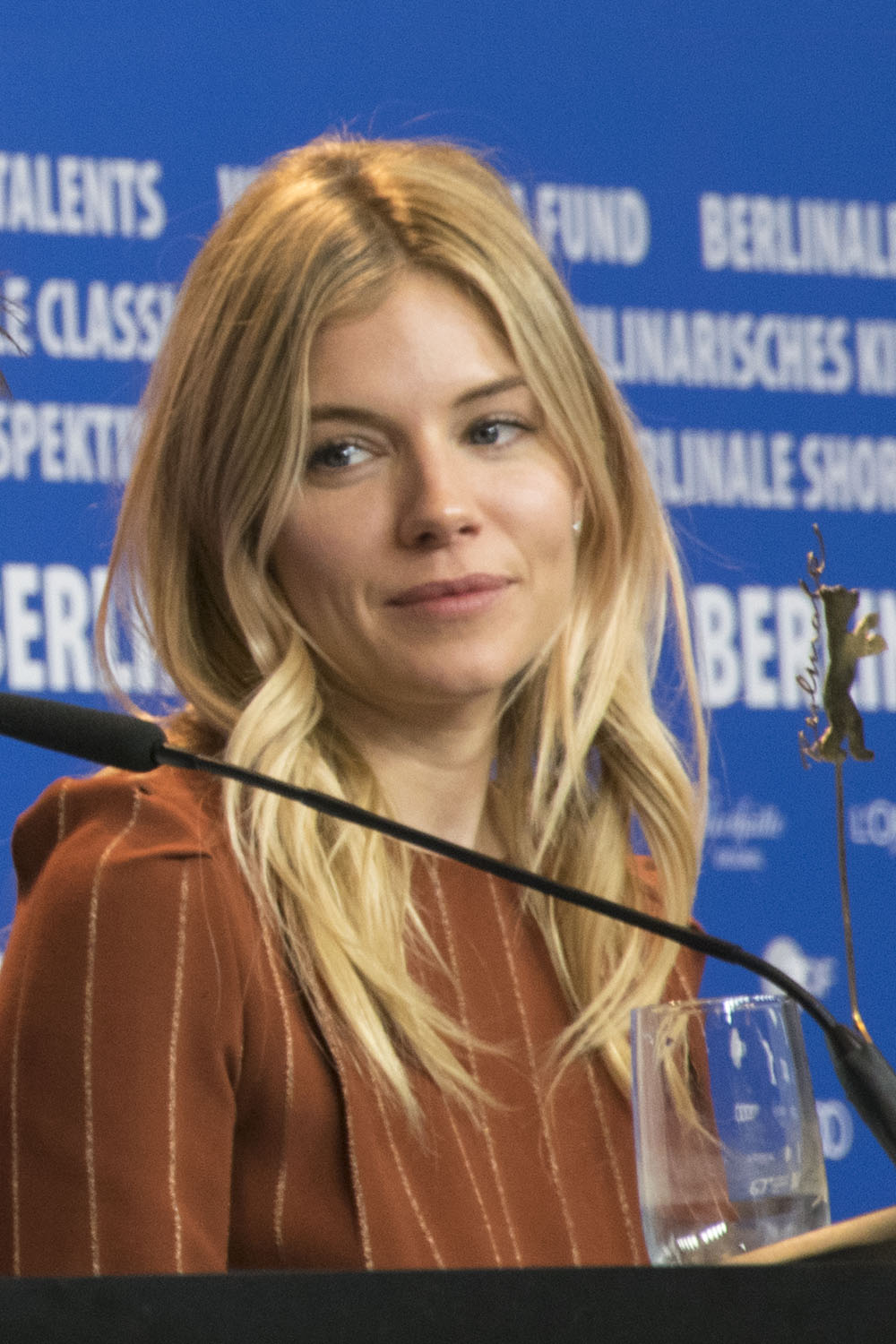 Sienna Miller at the press conference of the film The Lost City of Z at the 2017 Berlin International Film Festival